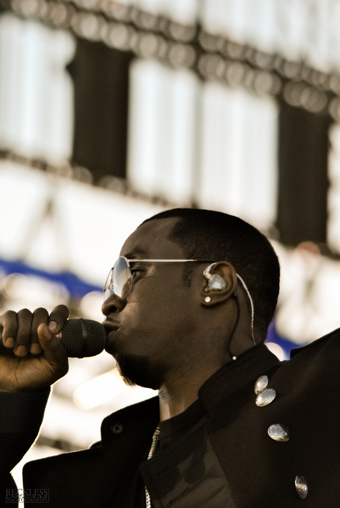 Sean Combs.